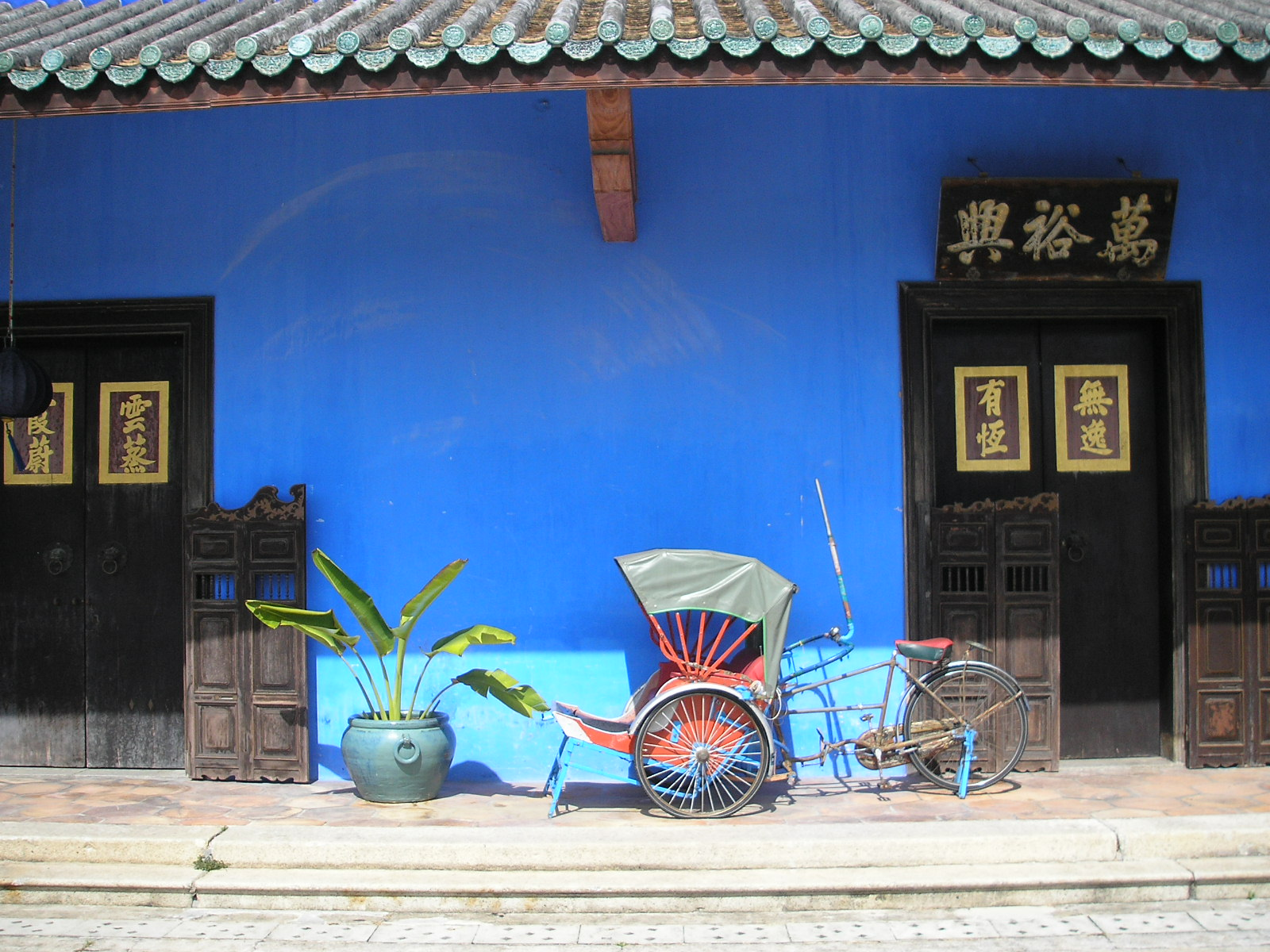 Image of the Cheong Fatt Tze Mansion (also known as the "Blue Mansion") in George Town, Penang. The mansion received a UNESCO prize for best conservation.